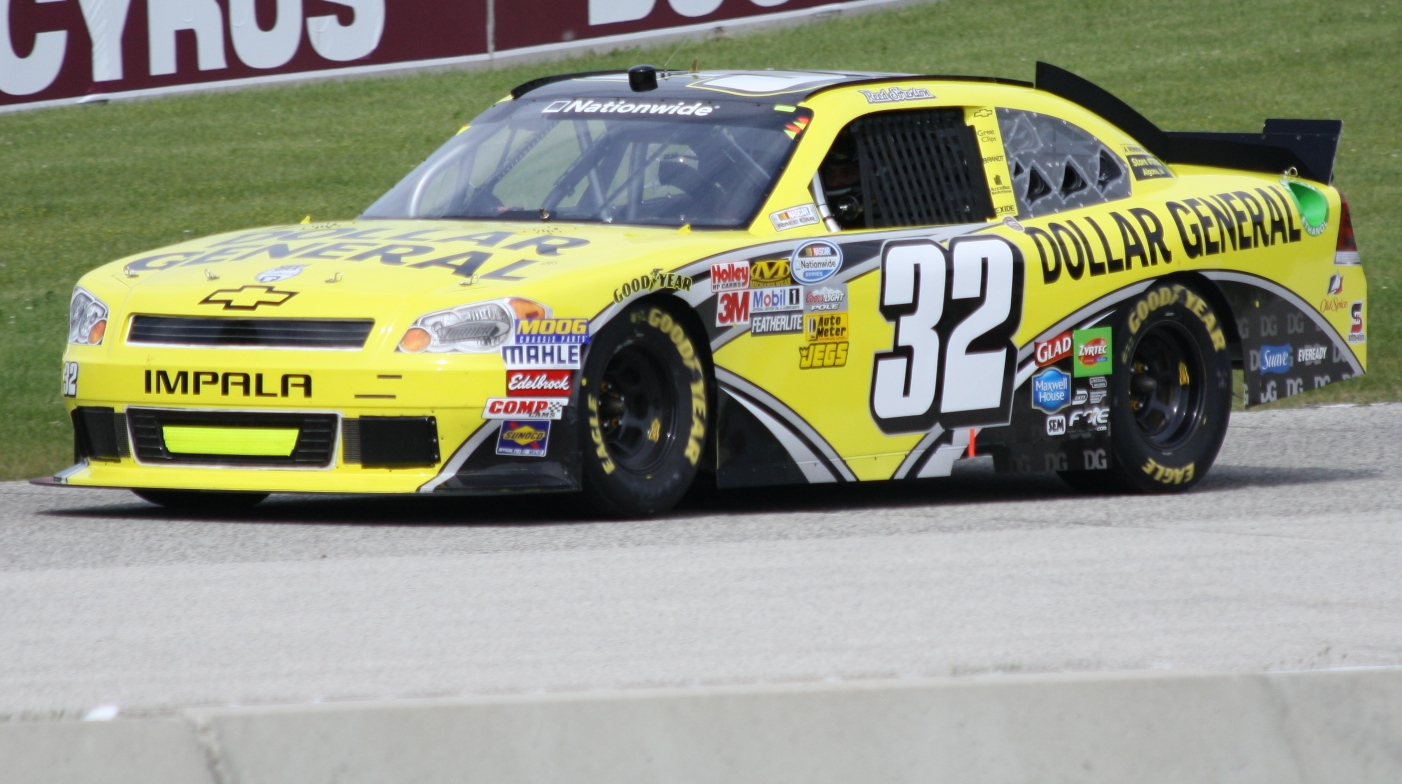 NASCAR driver Reed Sorenson racing his stock car at Road America at the 2011 Bucyros 200 Nationwide Series race. He won the race after Justin Allgaier ran out of fuel on the final lap under caution.